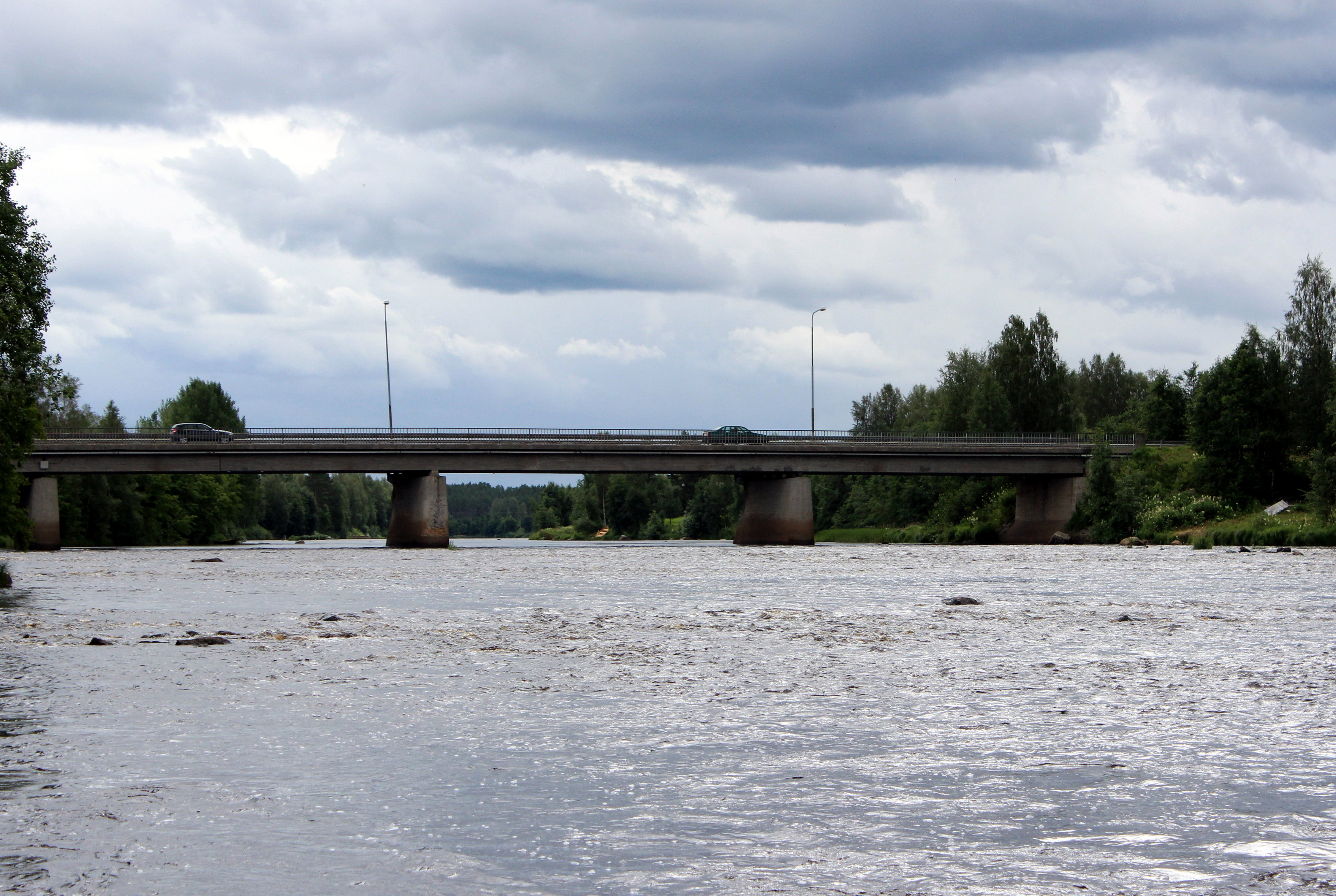 The bridge over the Siikajoki river on the national road 8 (E8) in the Revonlahti village.